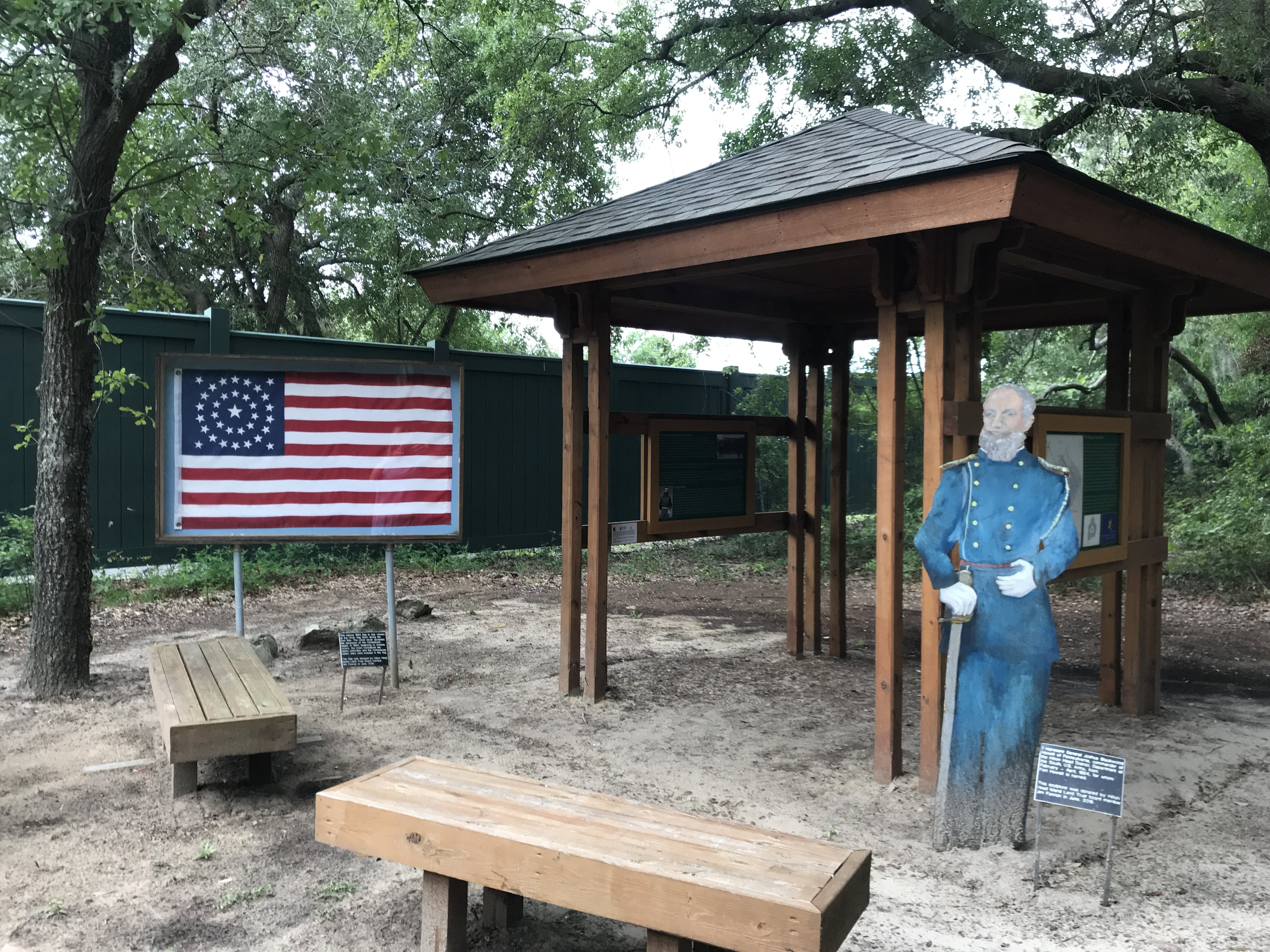 A photograph of Fort Howell on Hilton Head Island as it stands today.